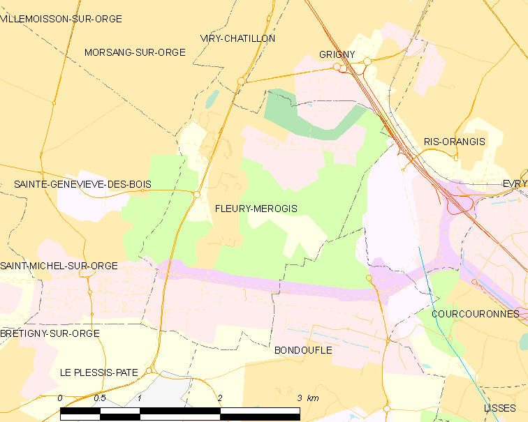 Map of French municipality Fleury-Mérogis